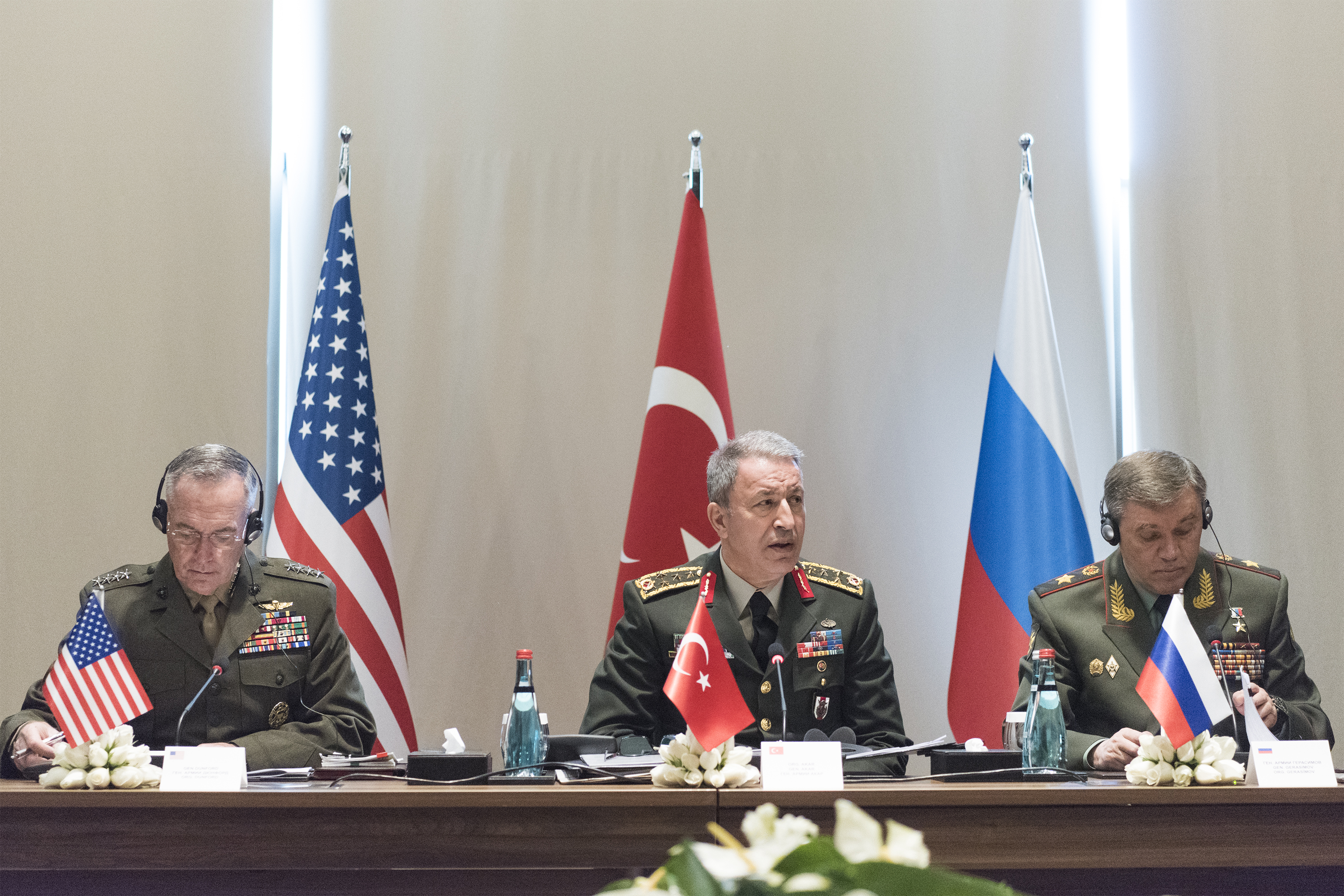 Marine Corps Gen. Joseph Dunford Jr., left, chairman of the Joint Chiefs of Staff, participates in a trilateral meeting with Gen. Hulusi Akar of the Turkish army, center, and Gen. Valery Gerasimov of the Russian army in Antalya, Turkey, March 6, 2017. The three chiefs of defense are discussing their nations’ operations in northern Syria. (Dept. of Defense photo by Navy Petty Officer 2nd Class Dominique A. Pineiro/Released)